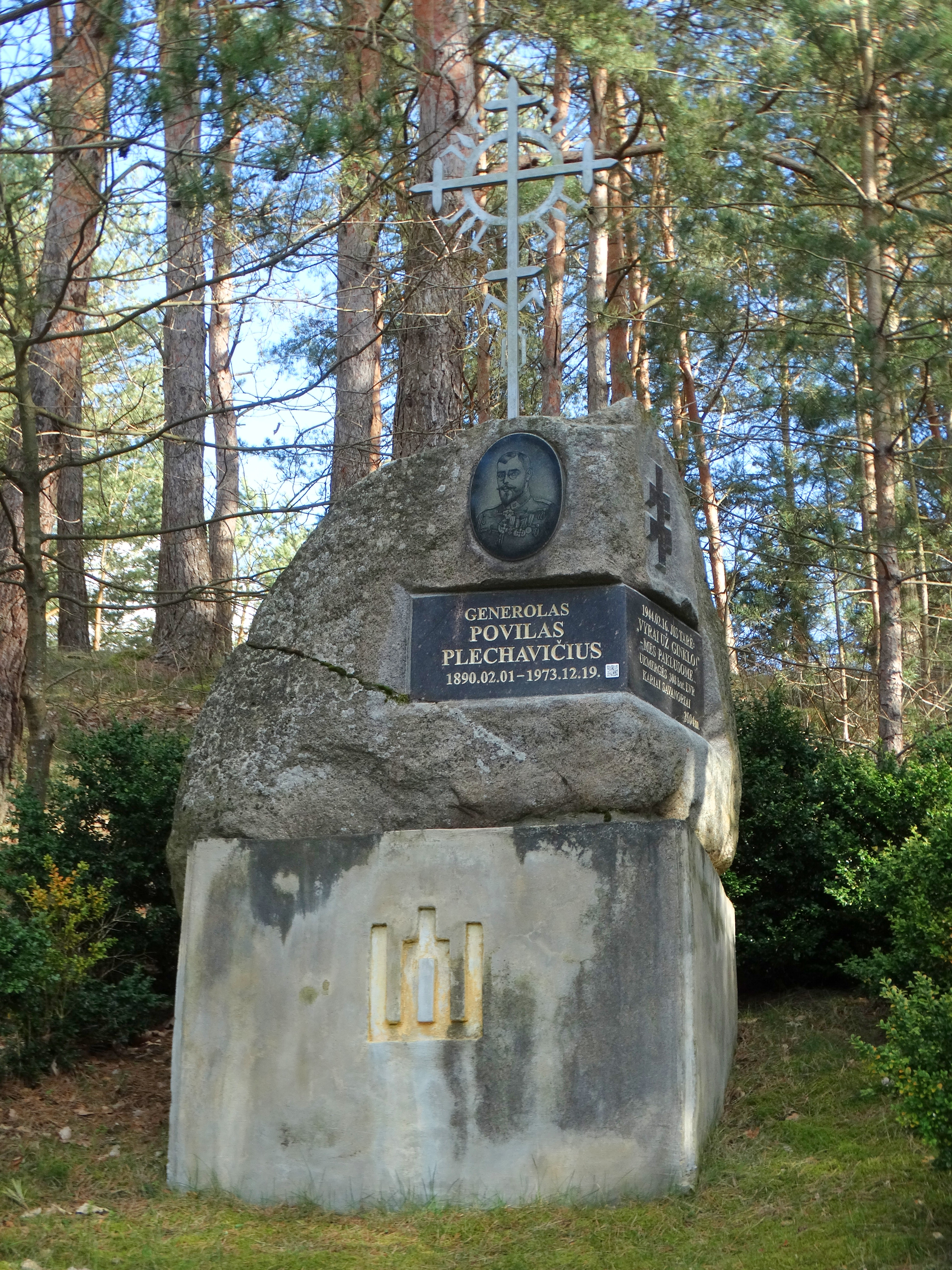 Memorial stone to Povilas Plechavičius, Kadrėnai, Ukmergė district, Lithuania